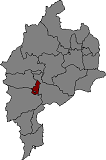 Location of Organyà in Alt Urgell